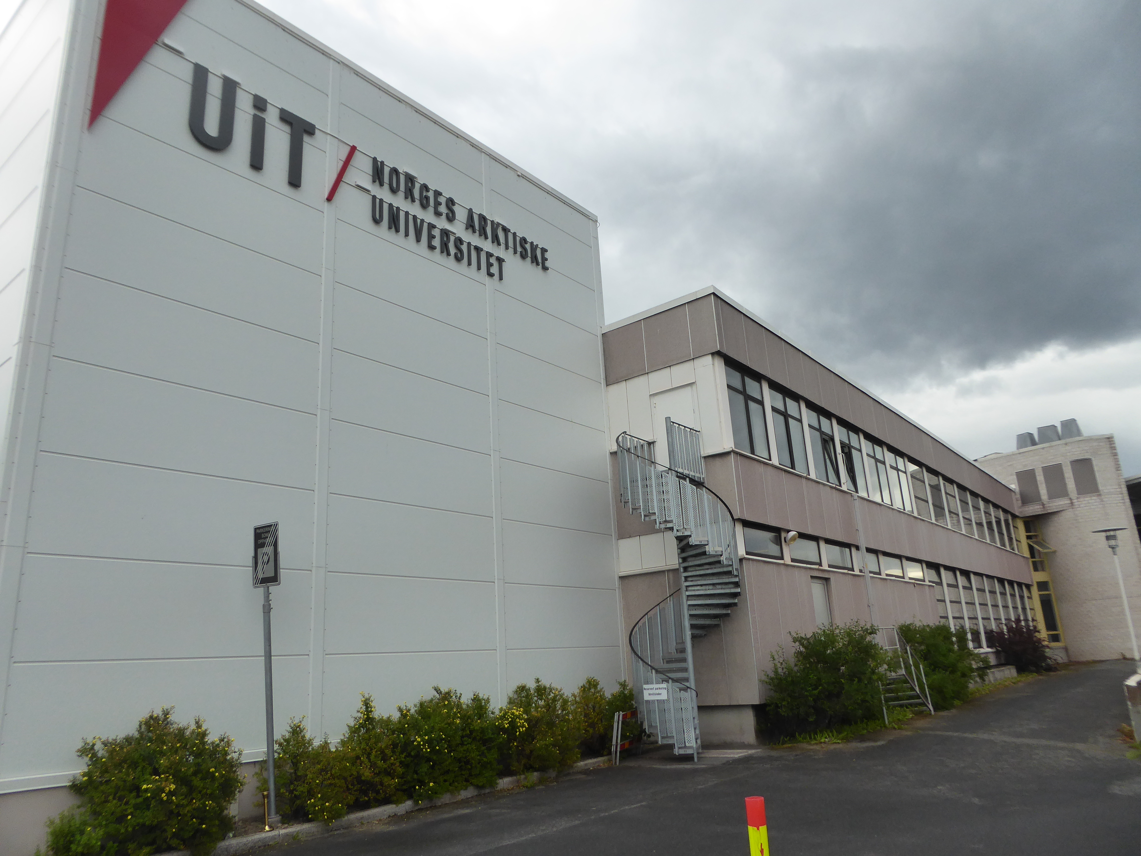 UiT in Narvik